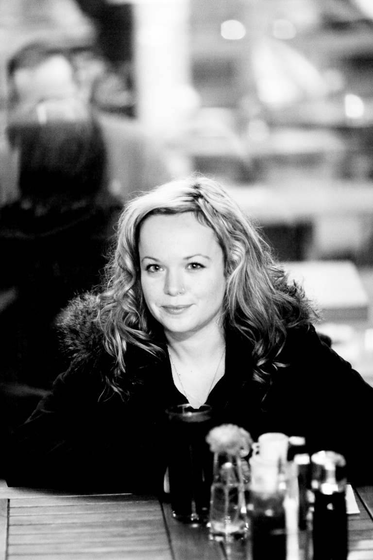 Canadian musician Allison Crowe, on tour in Europe, is pictured here at Jazzlokal Mampf, Frankfurt, Germany, in October 2012. Photographed by Billie Woods, this image is a free work in connection with its use in the article linked @ this provides readers with an enhanced understanding of the artist currently. NB - As well as writing to permissions as specified, a note permitting reuse under the free license CC-BY-SA has been made at the site of the original publication - specifically this note is prominently posted @ and Adrian22 (talk) 08:51, 20 August 2013 (UTC)